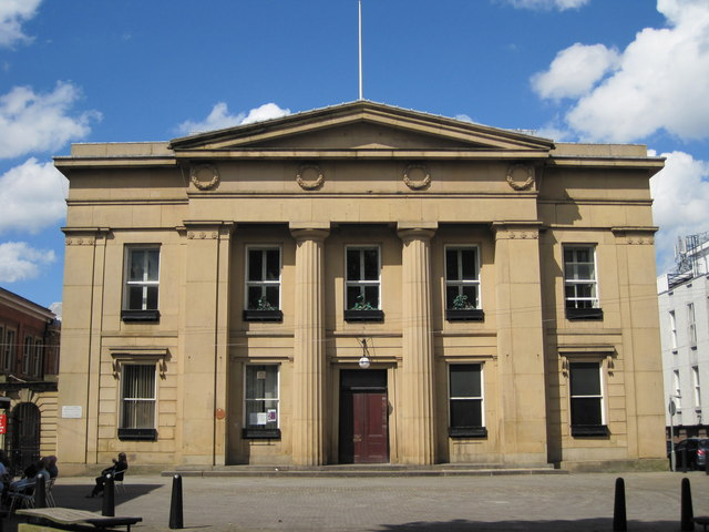 Former Town Hall, Salford This building is the former Salford Town Hall, built 1825-1827 and designed by Richard Lane. It is now the Magistrates Court.